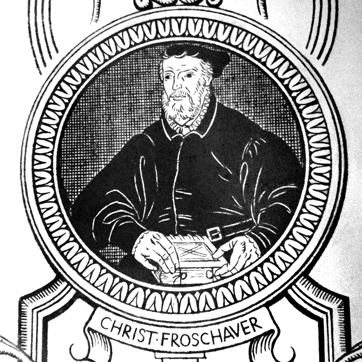 Portrait of Christoph Froschauer (1490-1564), wall painting at Orell Füssli headquarters in Zurich-Wiedikon